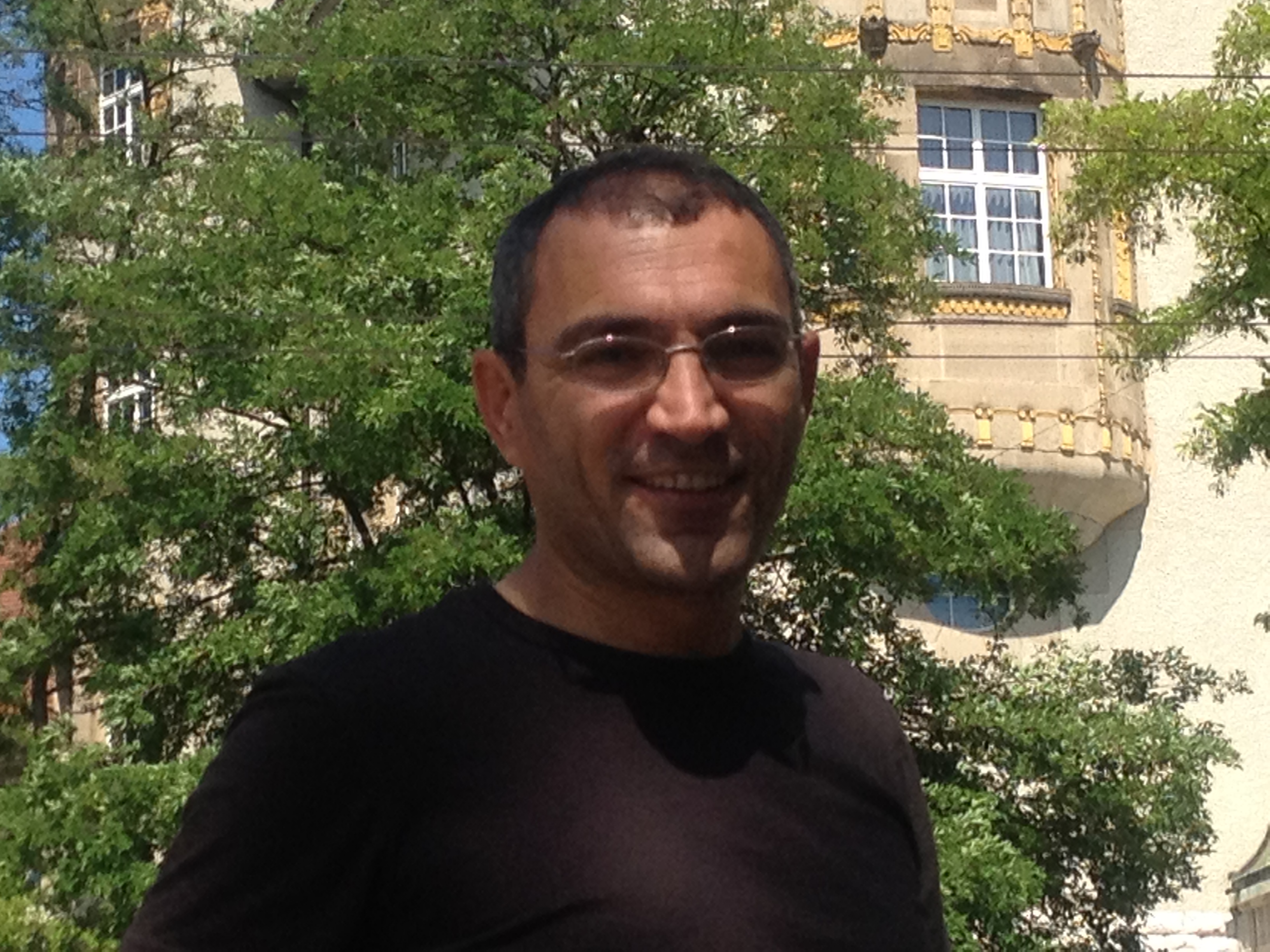 Portrait of writer Haydar Karataş